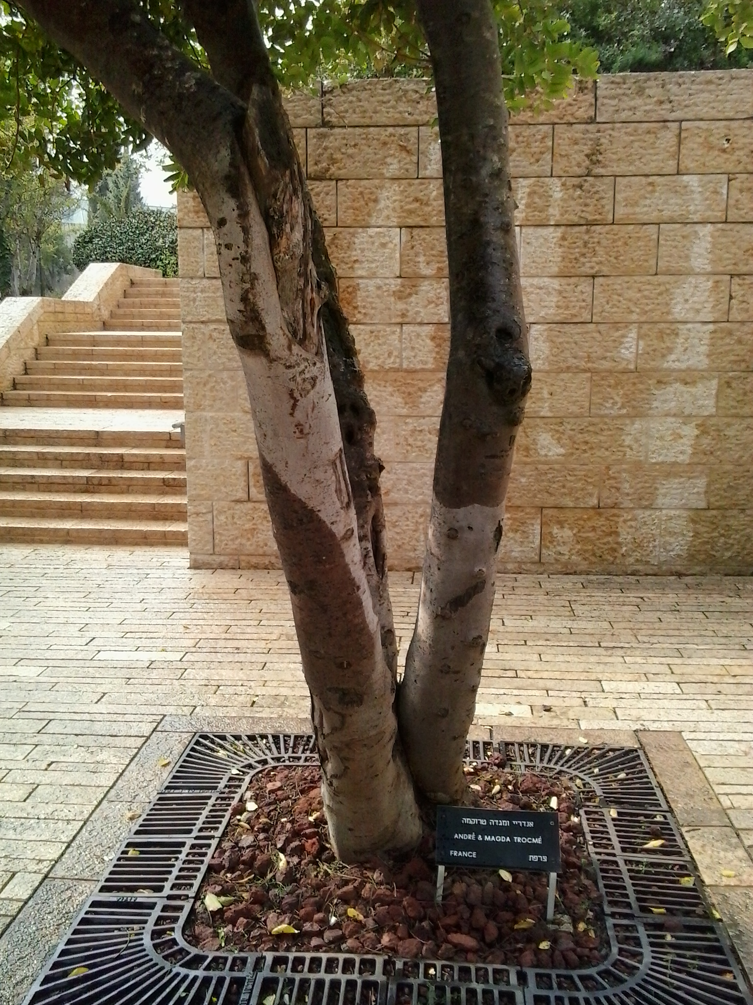 The tree planted at Yad Vashem honoring Andre and magda trocme